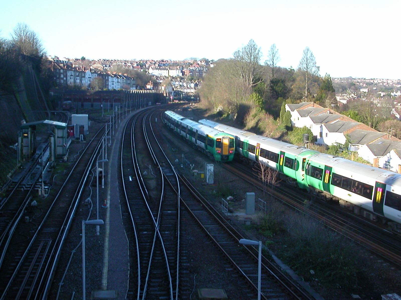 Two Southern trains north of Brighton station. Photographed on 9th December 2006.